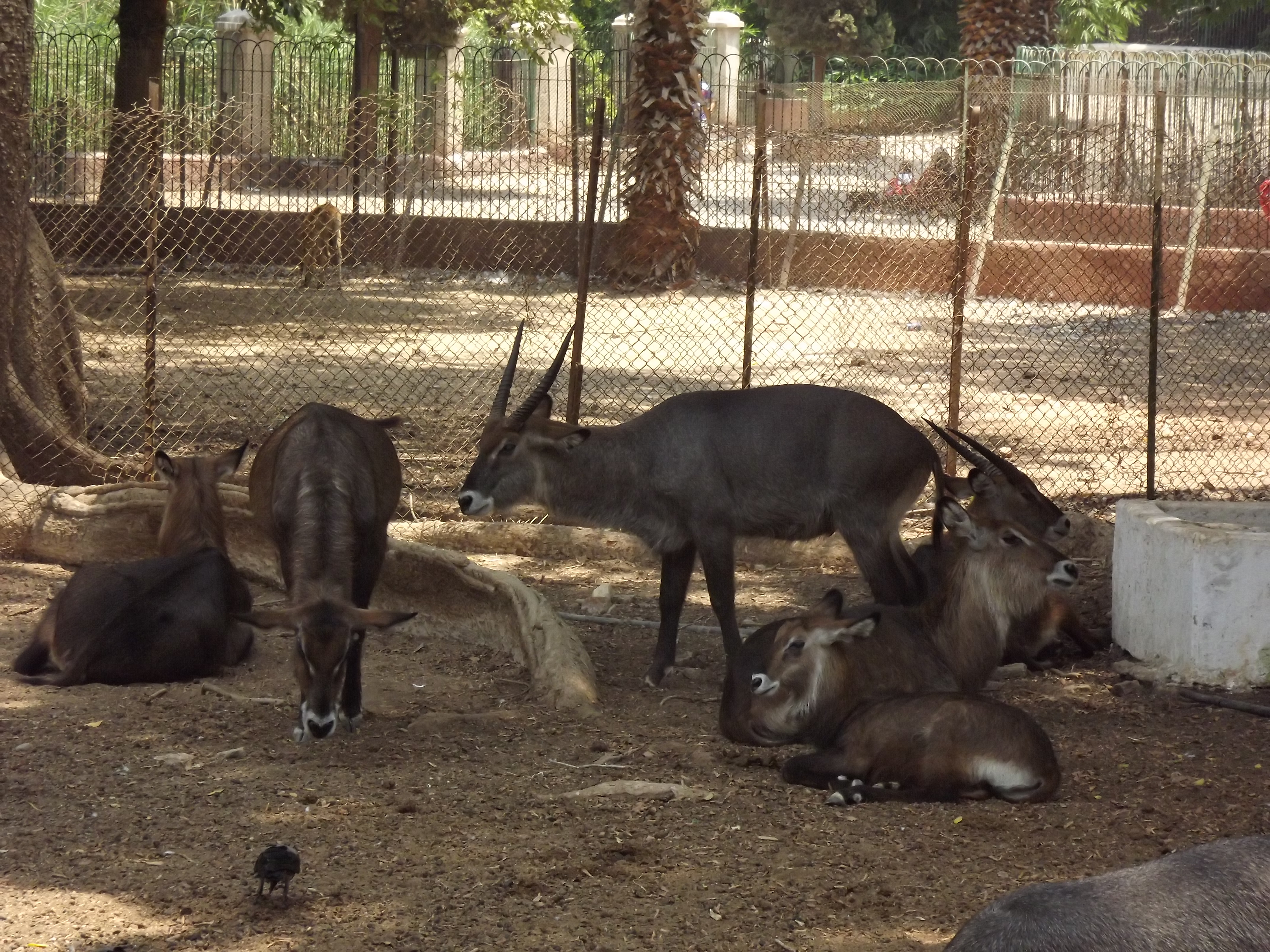 Waterbuck